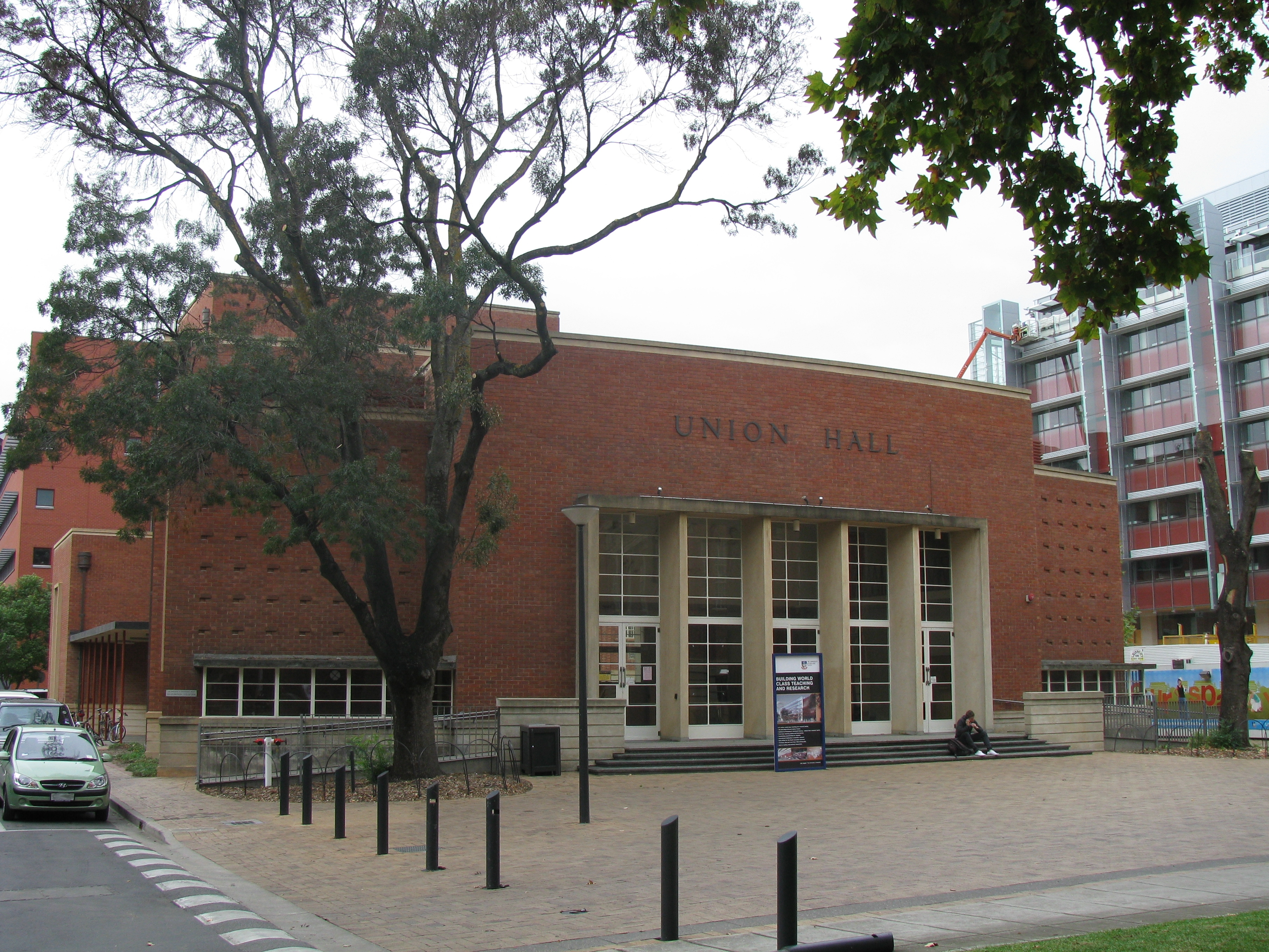 Image of the front facade of Union Hall at the University of Adelaide in 2010.